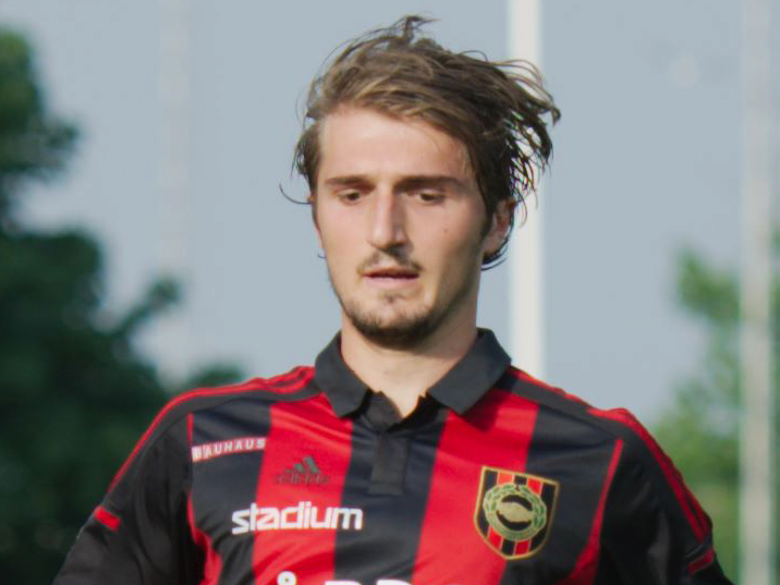 Allsvenskan IF Brommapojkarna-Malmö FF at Grimsta IP